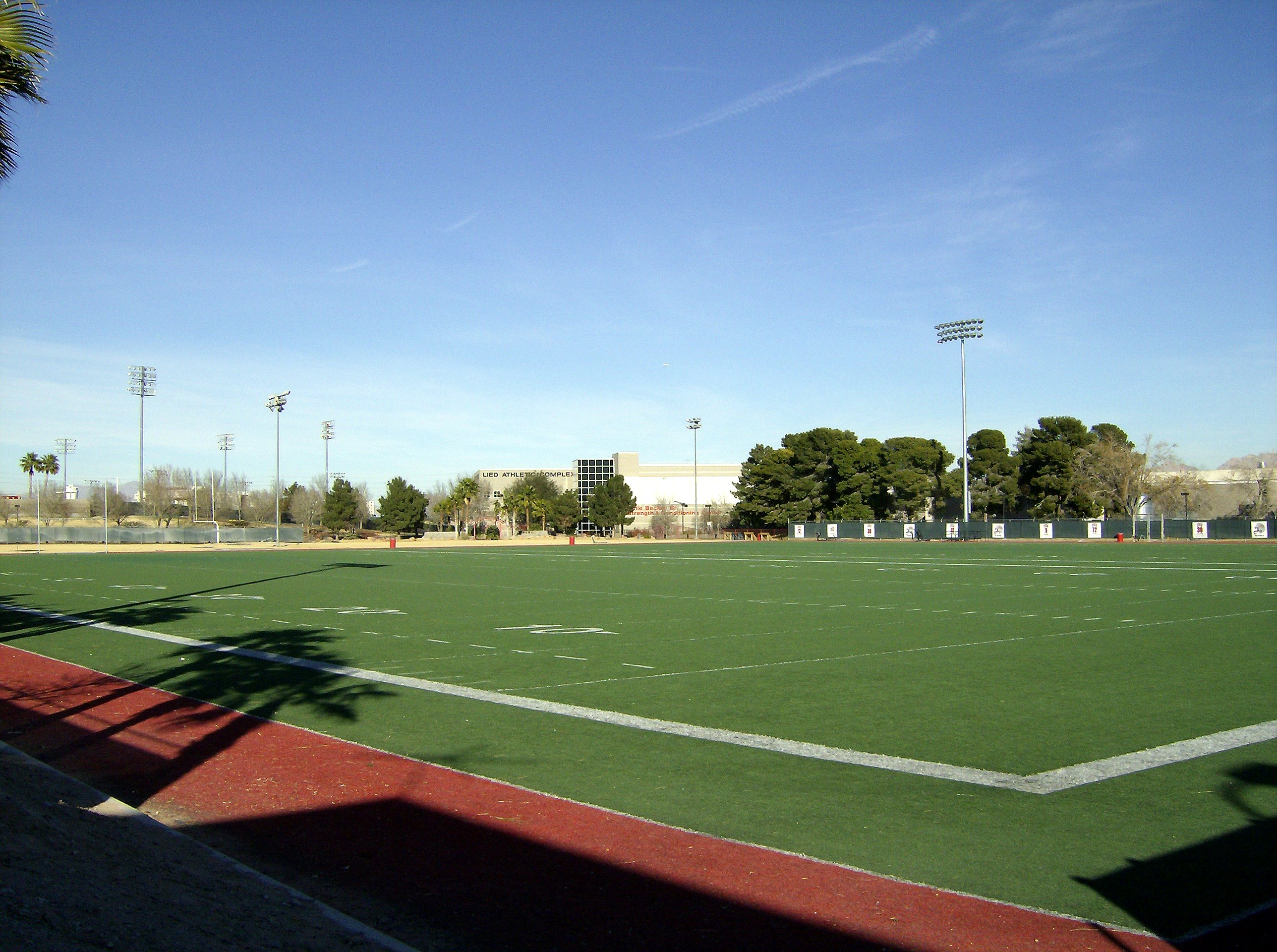 UNLV Rebels football practice field